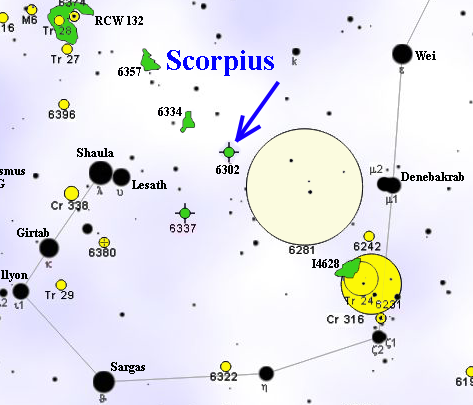 Map of NGC 6302